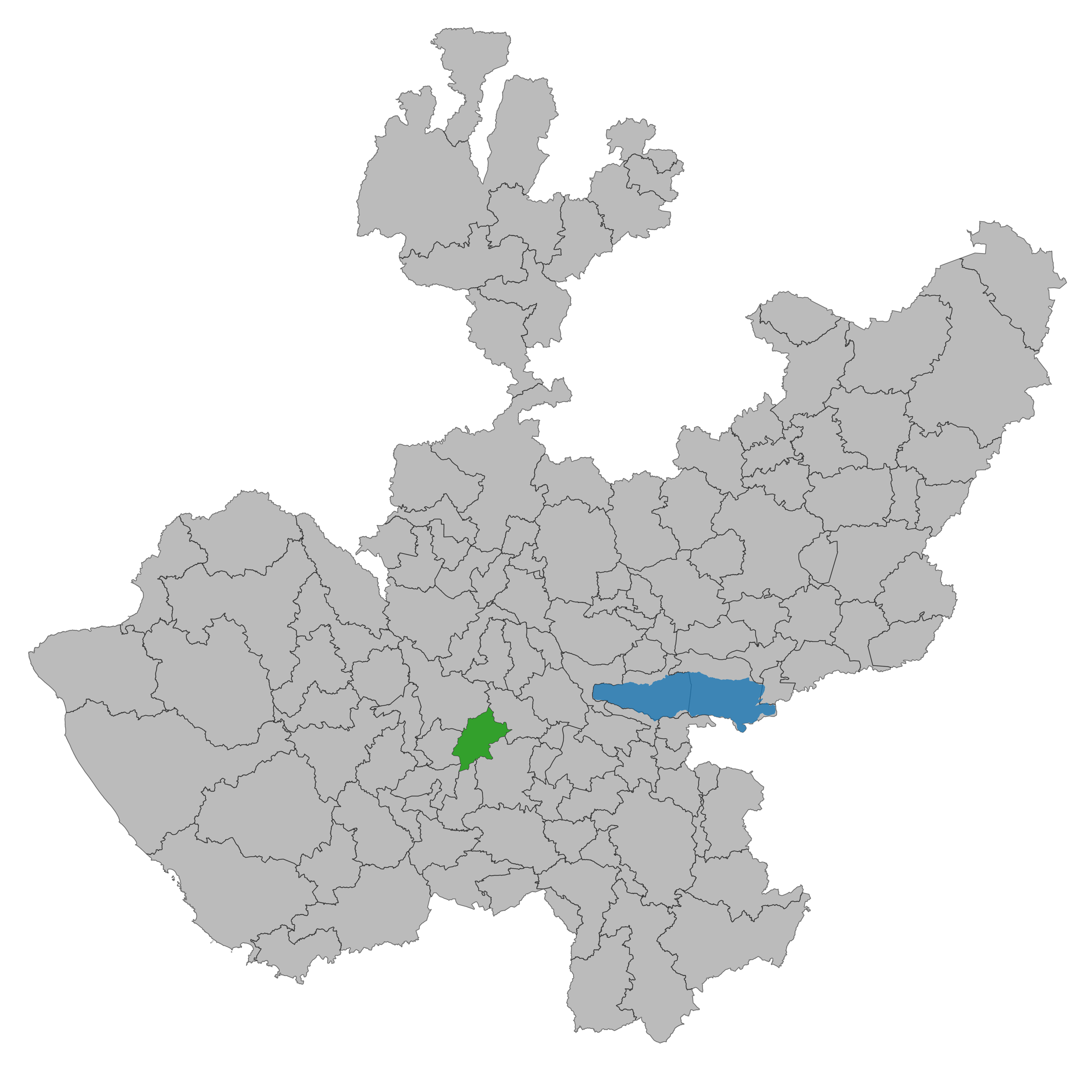 Municipality of Jalisco. Prepared with the software QGIS version 2.8.2 Wien & with information of SCINCE 2010 version 05/2013